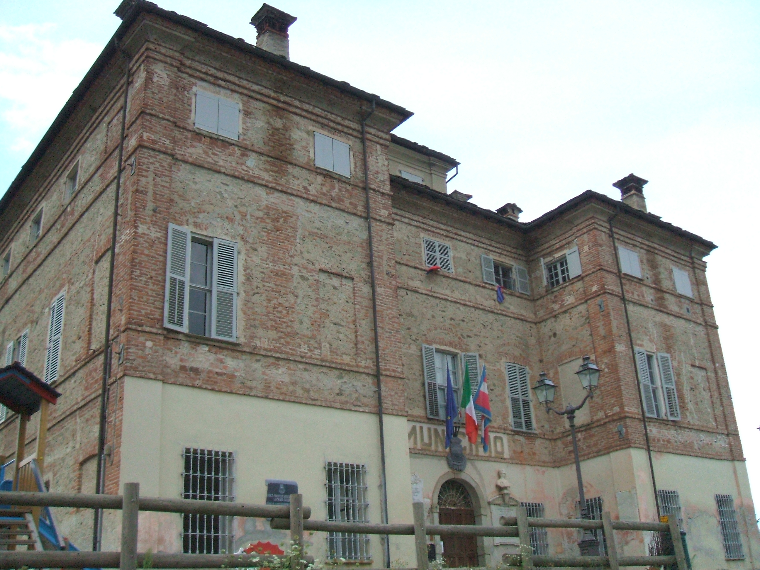 Pamparato's castle (piedmont)